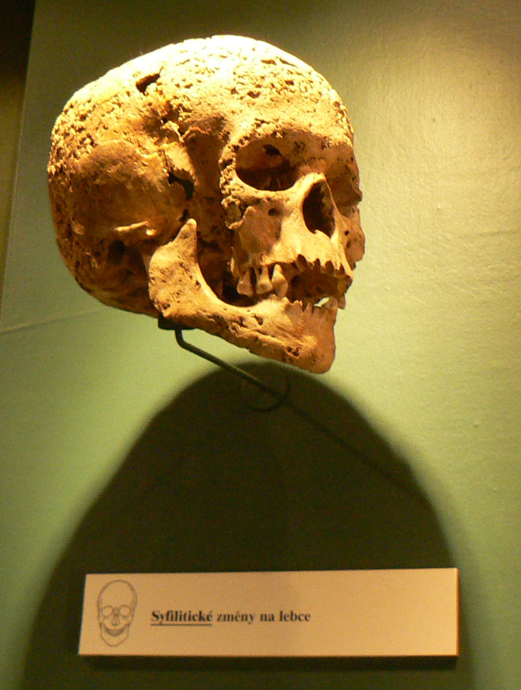 skull syphilis